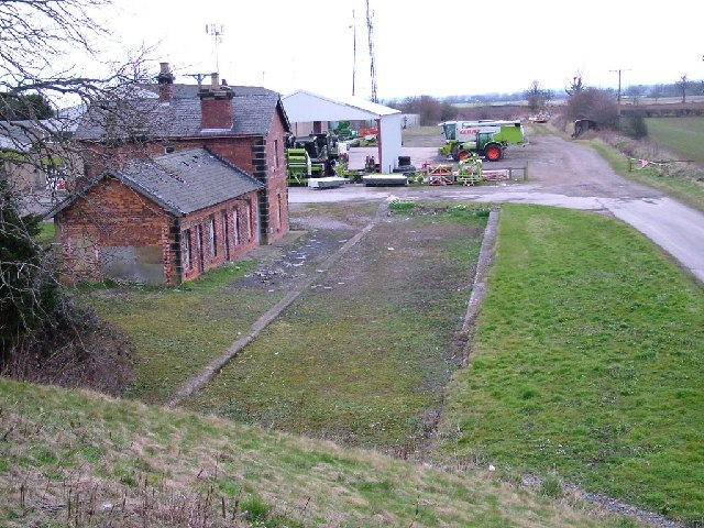 Sinderby Railway Station. Sinderby station was on the Northallerton - Harrogate line, closed in 1967 with no foresight. It is today owned by a farming machinery company, although numerous railway vehicles are stored on the site just north of the old station